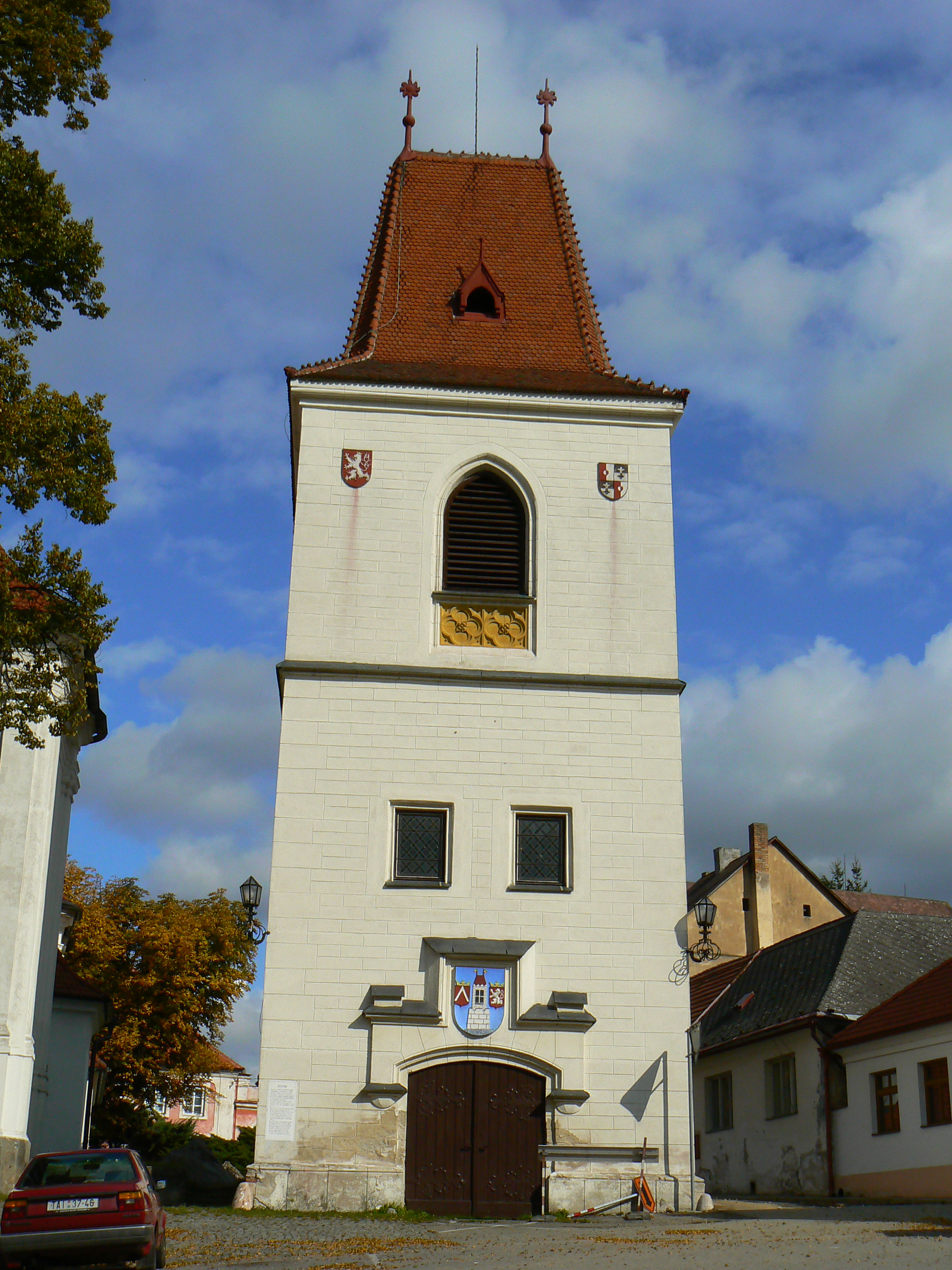 Belfry on Zizkovo nameseti in Mlada Vozice